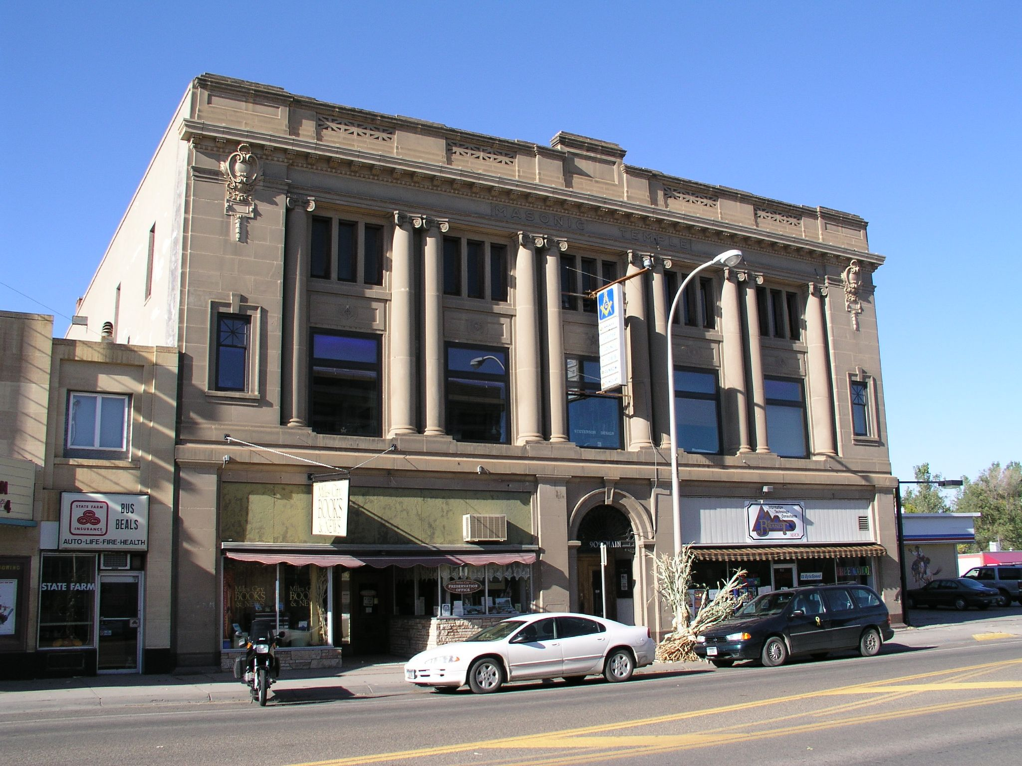 Masonic Temple Building, 909 Main Street, Miles City, Montana. Businesses housed in this building at the time of the photo: Miles City Books & News, 907A Main Street; Miles City Historic Preservation Office, 907B Main Street; Stevenson Design, 909 Main Street; and Brandt Information Technology Consultants, 911 Main Street.